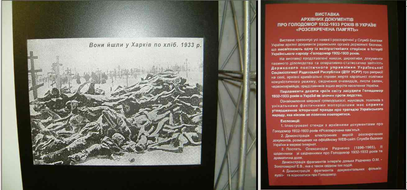 Security Service of Ukraine (SBU) exhibition “Declassified memory” November 2006. Nansen’s 1921 Russian Famine image labeled as “They were going to Kharkiv for bread 1933”